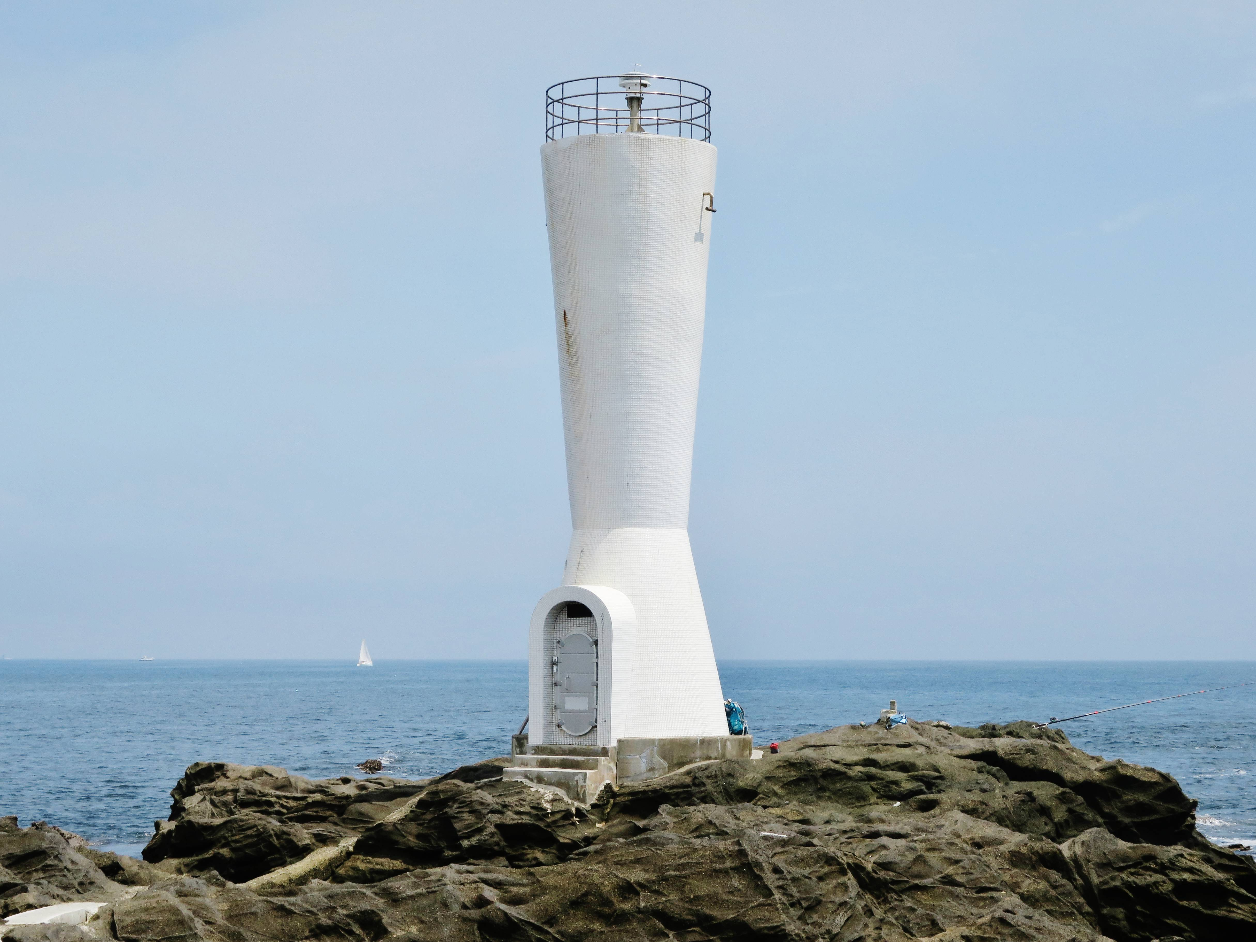 Awasaki Lighthouse in Kanagawa Prefecture, Japan